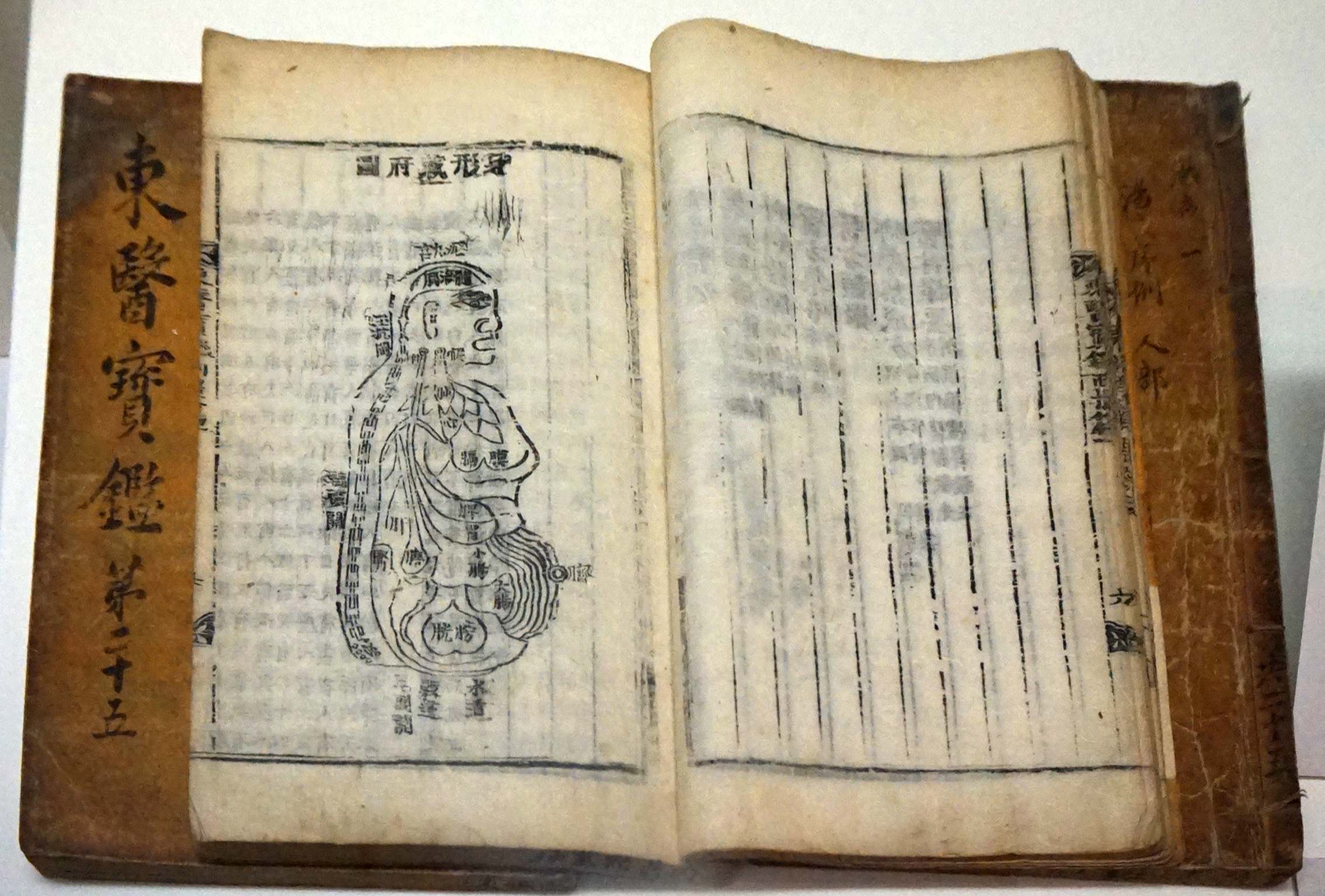 One page of one volume of Donguibogam, National Museum of Korea, Seoul, South Korea